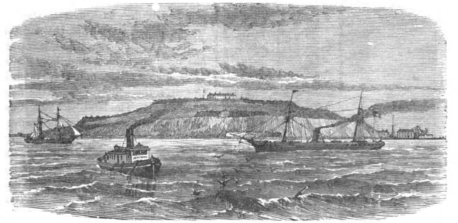 Engraving depicting a former fortification in Boston Harbor, Fort Winthrop